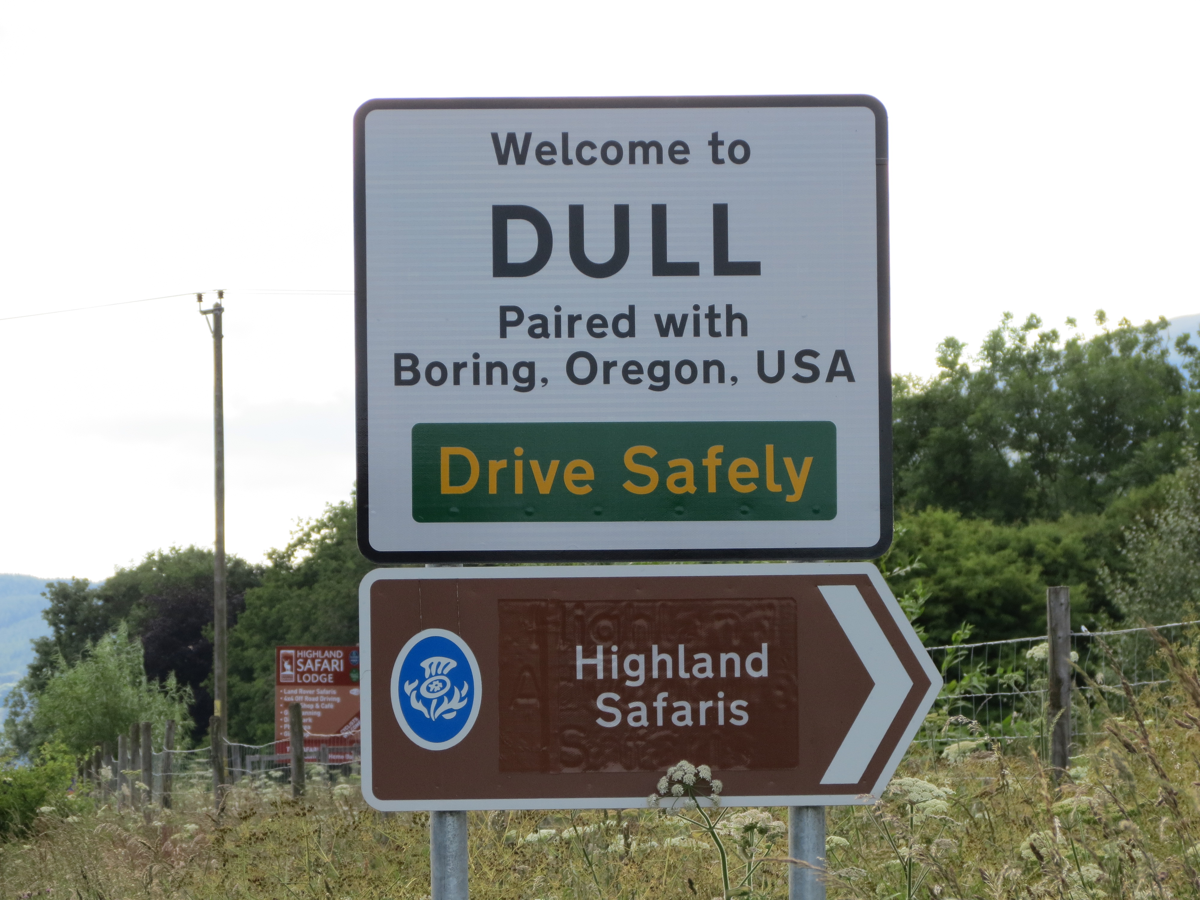 Twinning sign at Dull village, Perth and Kinross, Scotland